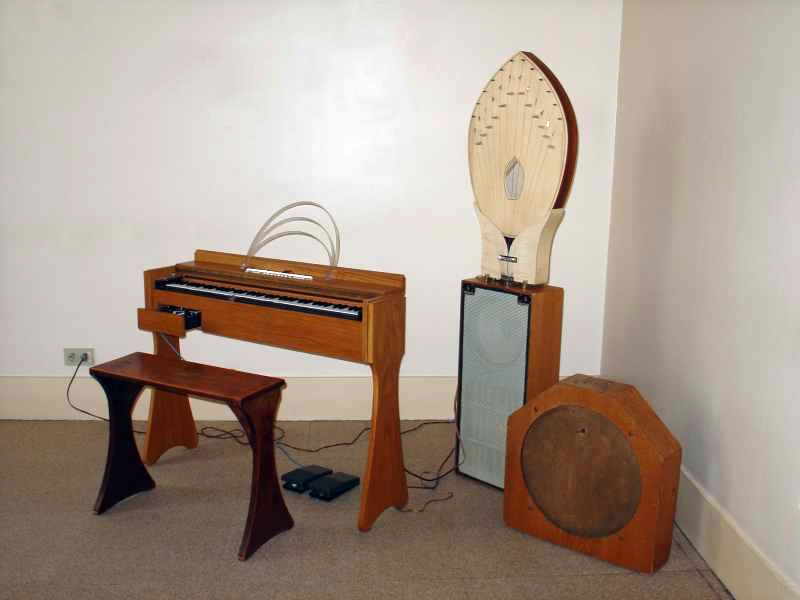 Les Ondes Martenot are an electronic music instrument invented in 1928 by Maurice Martenot.